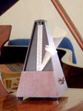 A metronome.